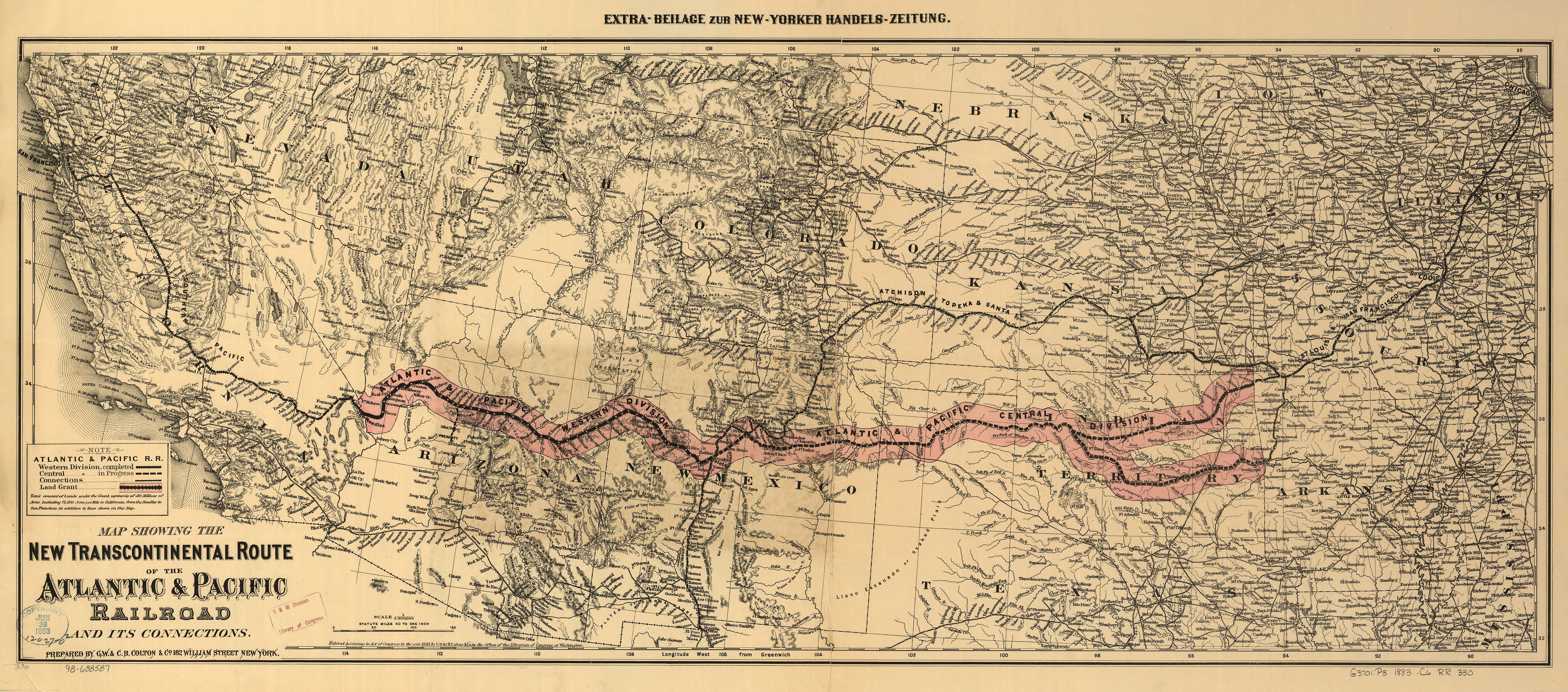 A map of the Atlantic & Pacific Railroad. Shows tracks completed, tracks in progress, and land grants.